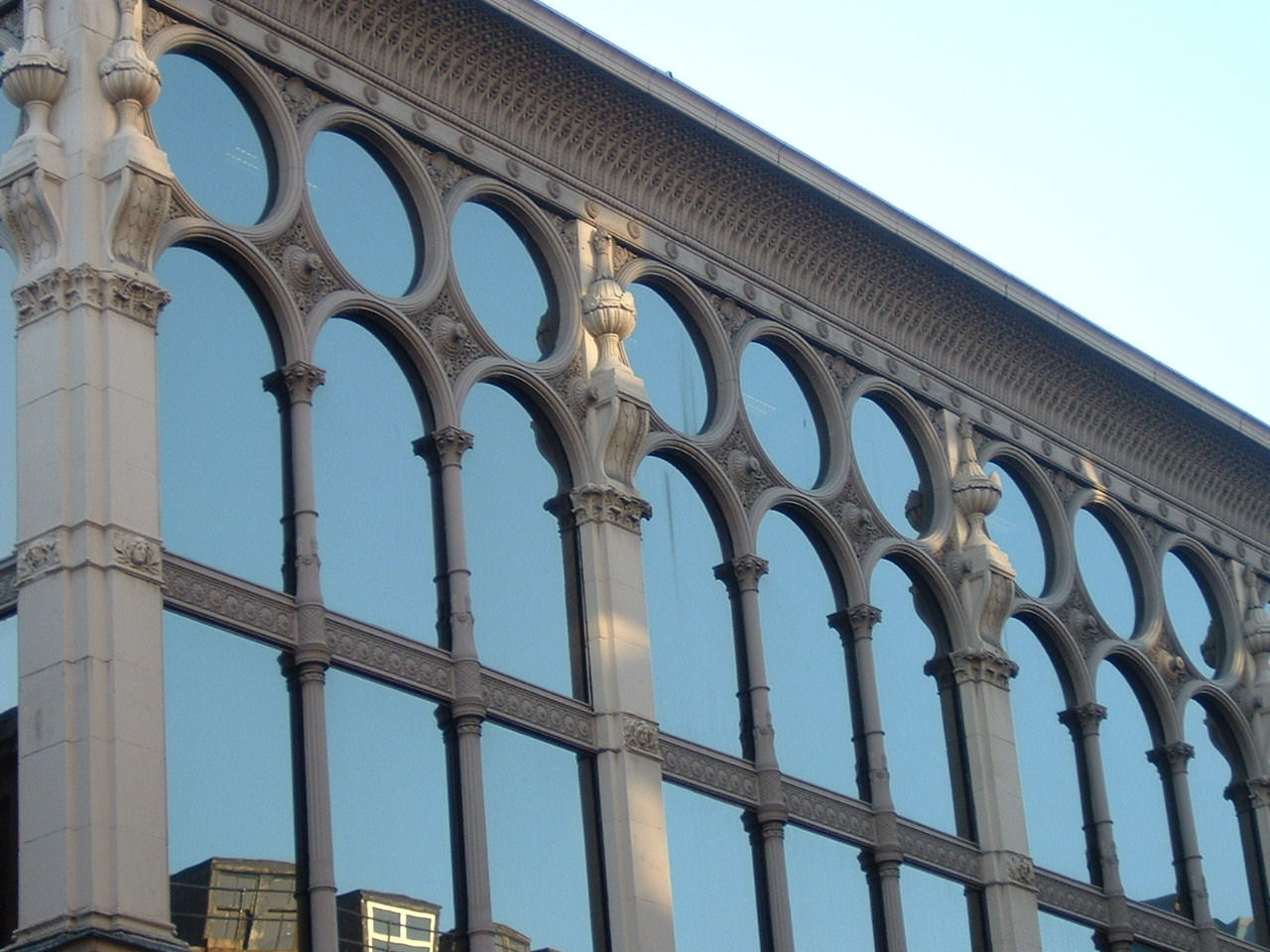 Detailed view of cast-iron faced building in Glasgow, Scotland